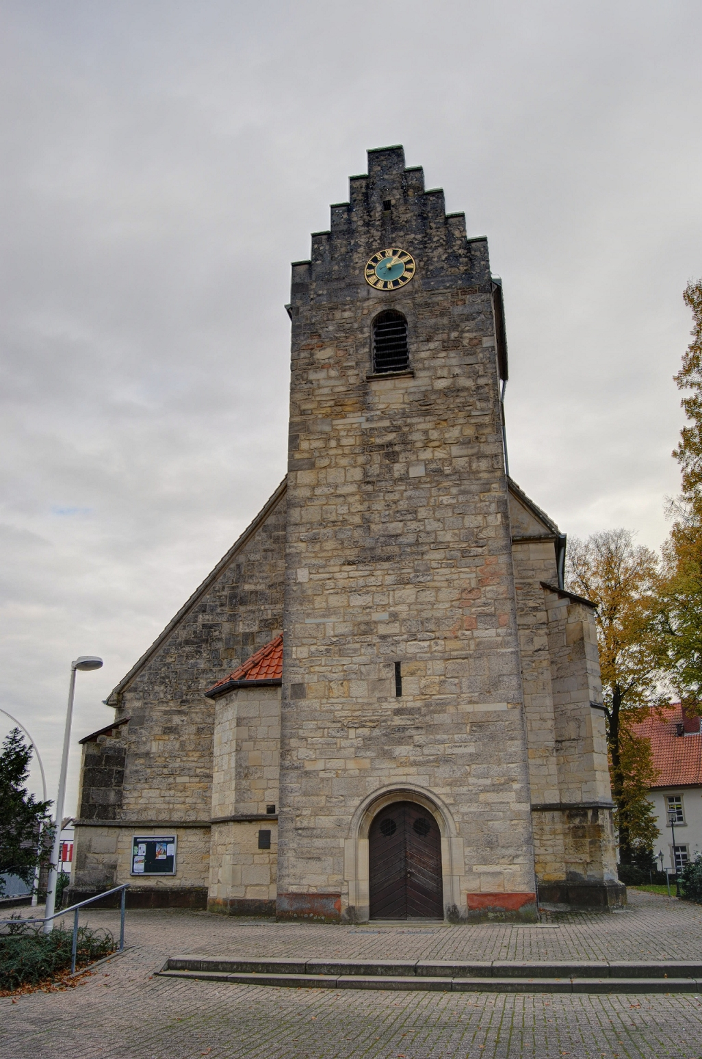 Nottuln (North Rhine-Westphalia, Germany) – district Darup – Catholic Saints Fabian and Sebastian church – tower seen from west with the main entrance This photograph was taken with a Nikon D3000.